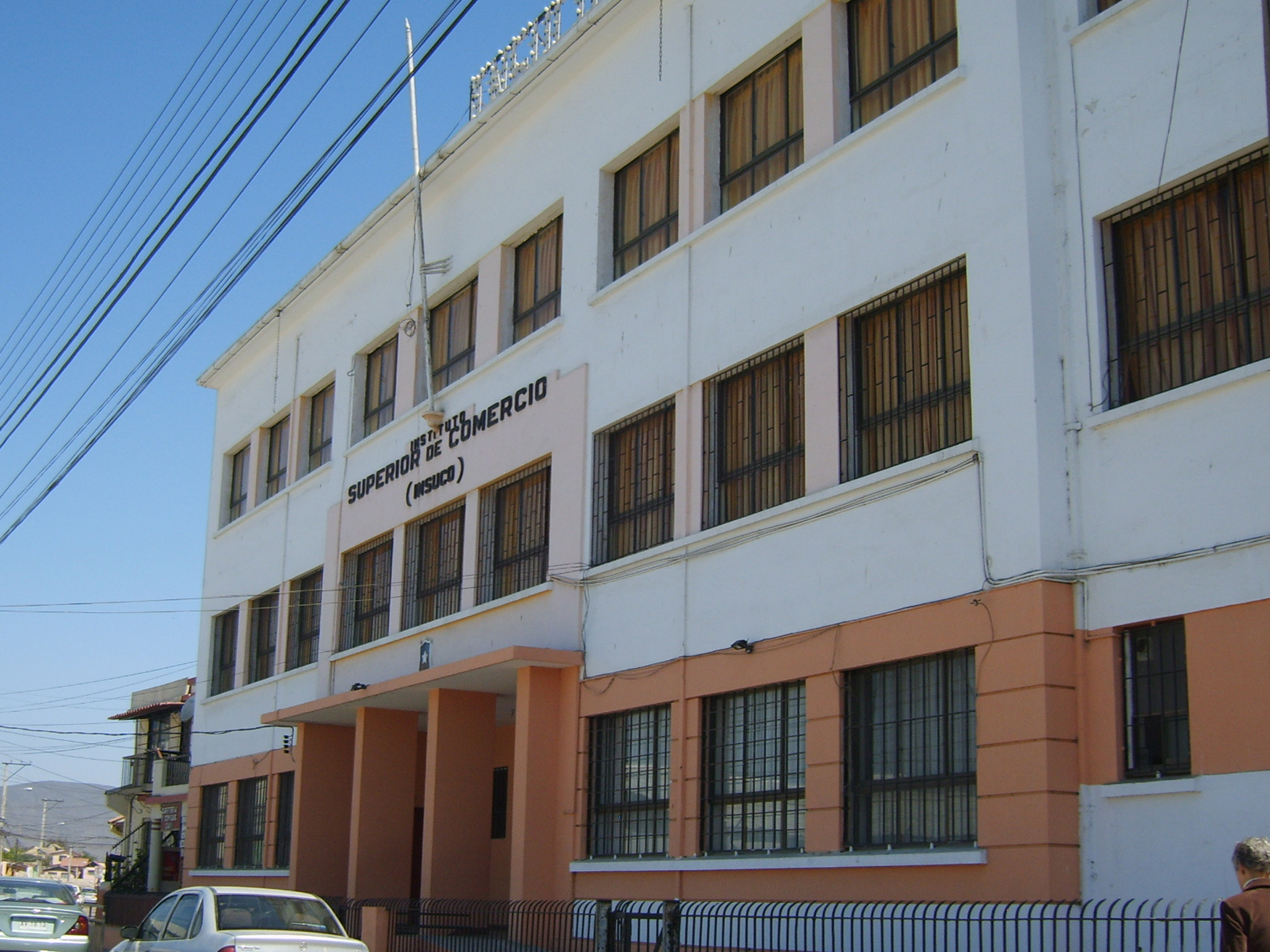 Instituto Superior de Comercio, Coquimbo, Chile.